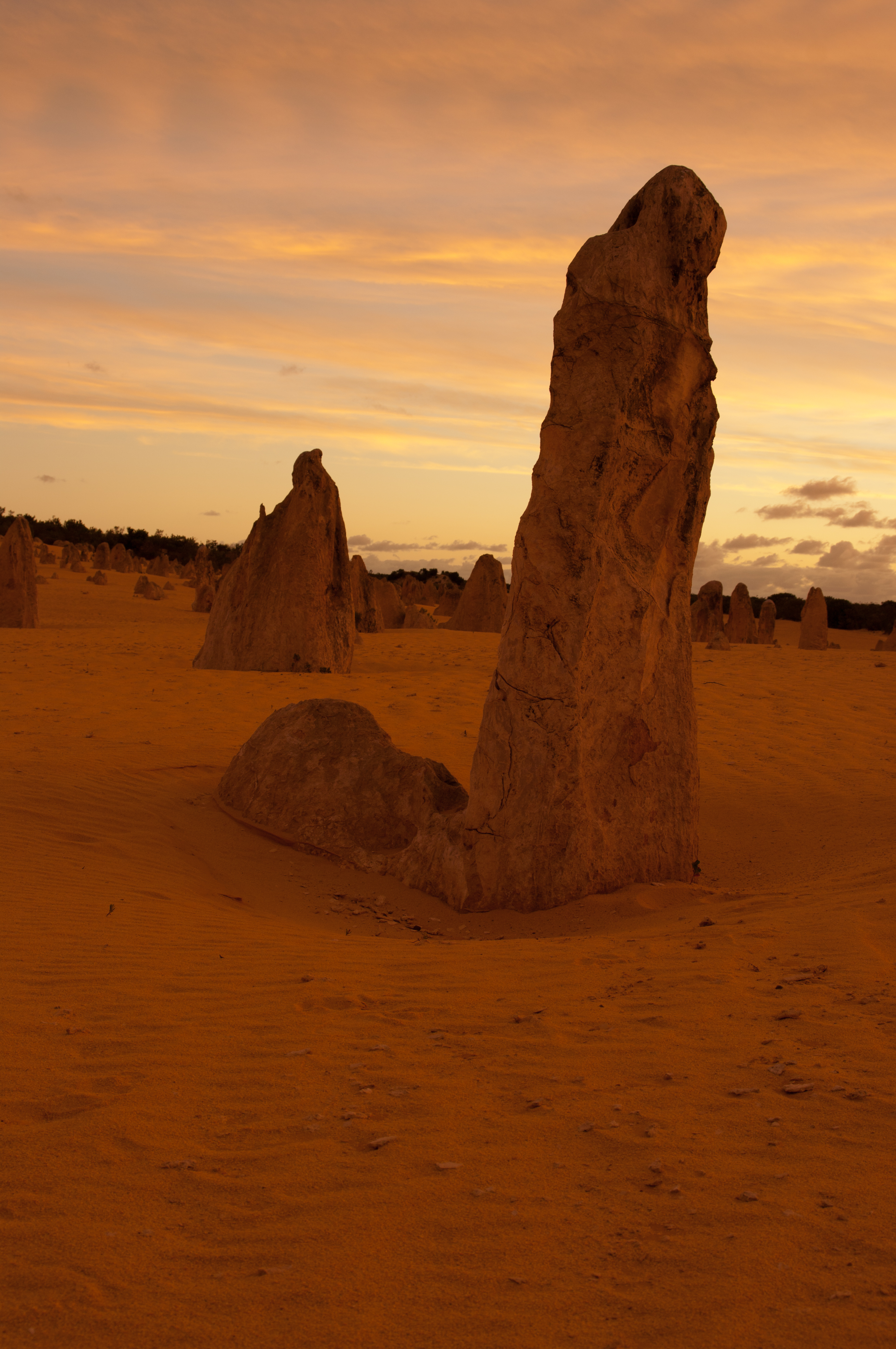 The Pinnacle Desert, Nambung National Park.